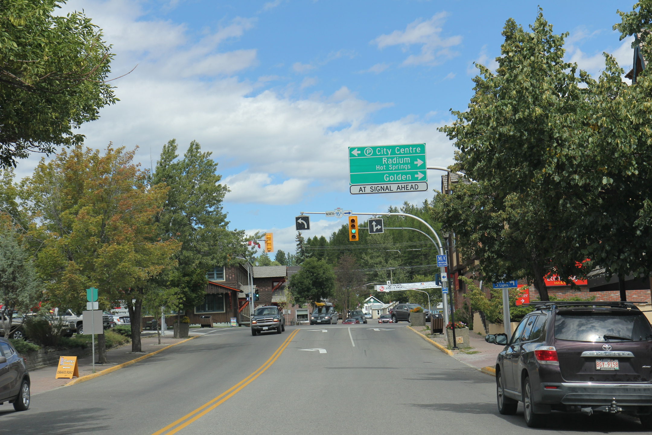 Downtown Kimberley, British Columbia on British Columbia Highway 95A.